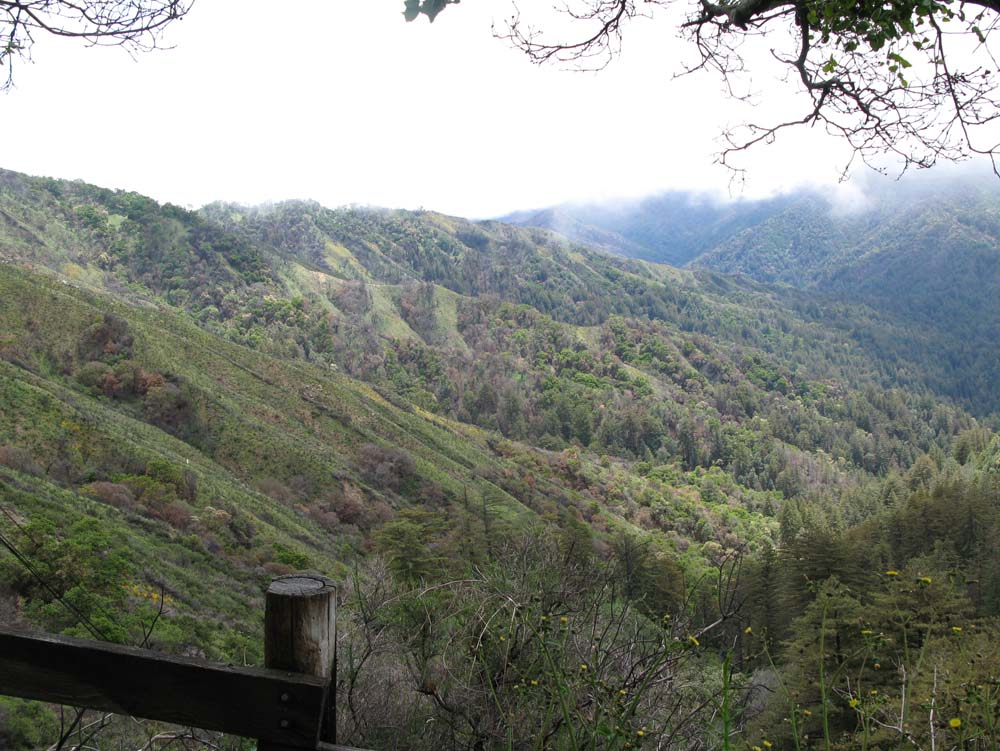 View south from Bottchers Gap campground of the Ventana Wilderness